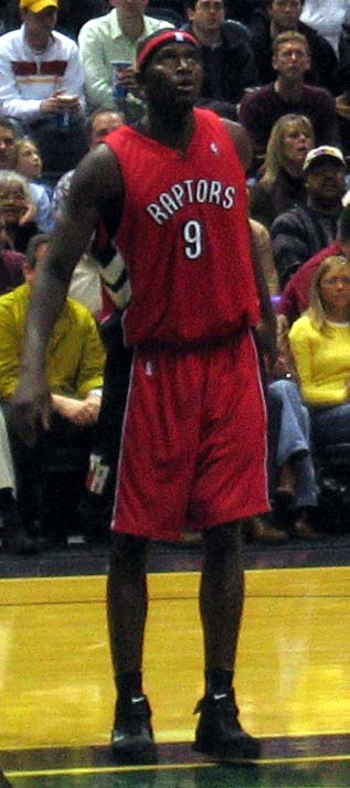 Pape Sow, Toronto Raptors, cropped This file has been extracted from another file: Chris bosh bucks.jpg